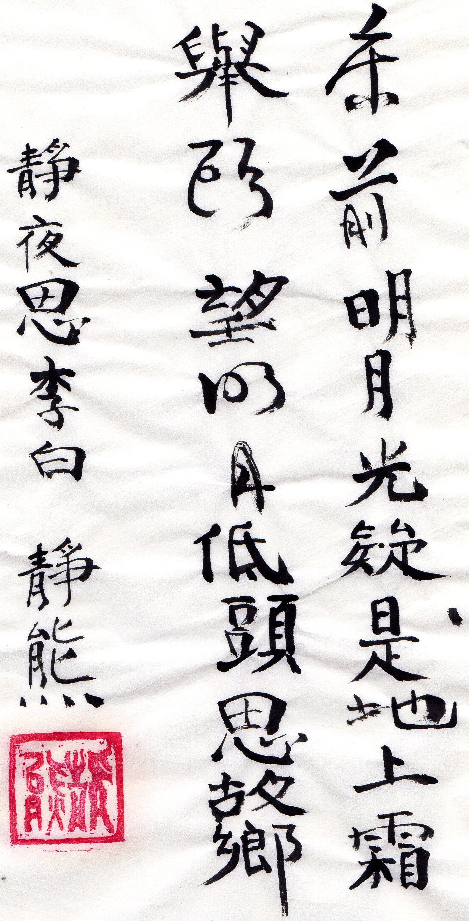 Student's work, copy of "Quiet Night Thought" from Li Bai